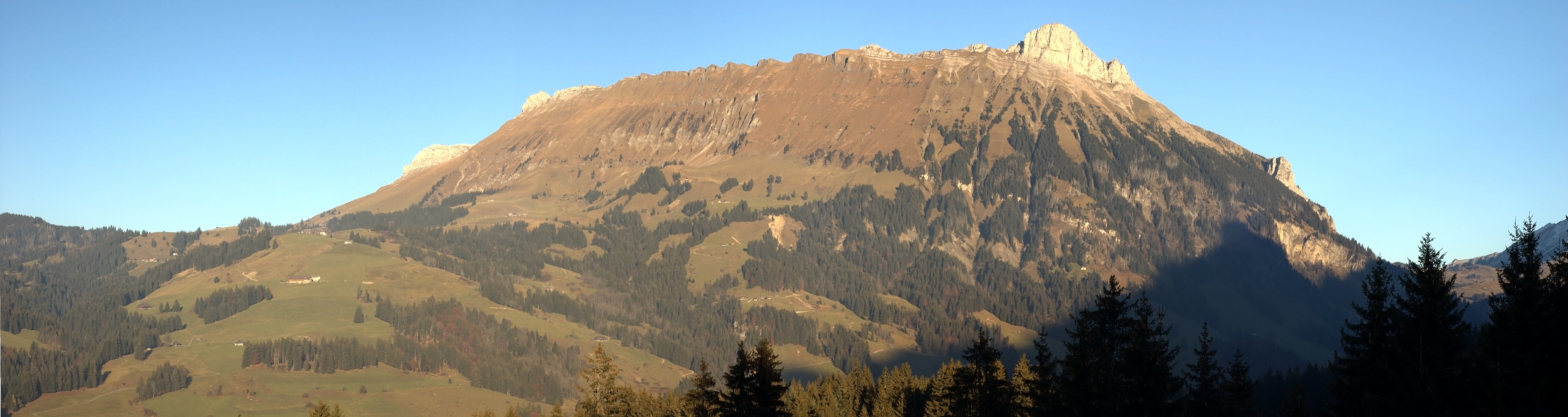 Panorama view from the Emmental to the Schrattenfluh, Entlebuch region, Switzerland 8 D